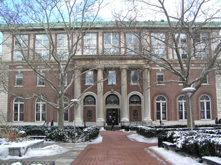 Avery Hall